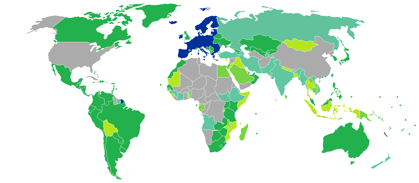 Visa requirements for Cypriot citizens Cyprus Freedom of movement Visa not required Visa on arrival eVisa Visa available both on arrival or online Visa required prior to arrival